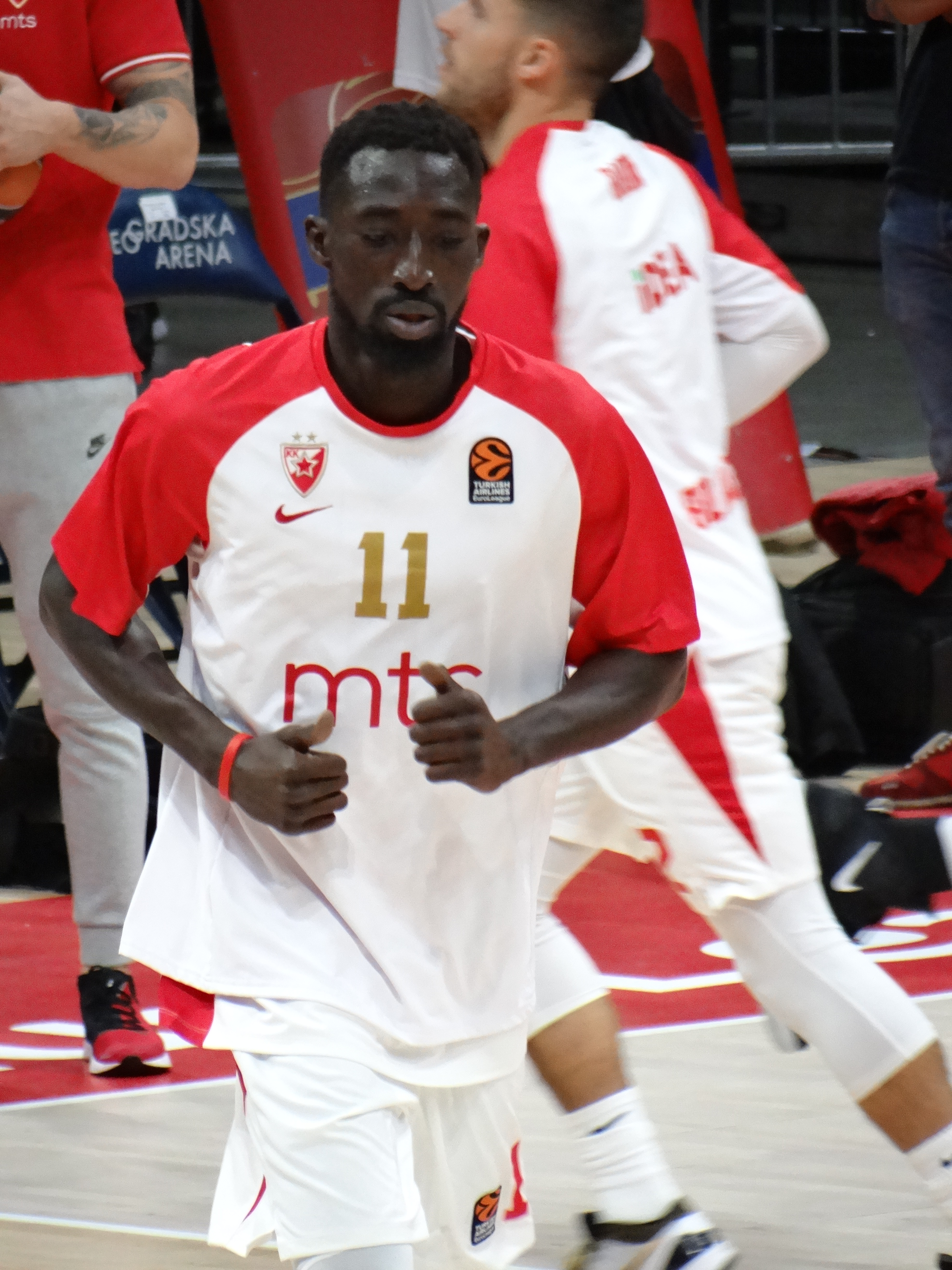 Mouhammad Faye 11 KK Crvena zvezda EuroLeague 20191010